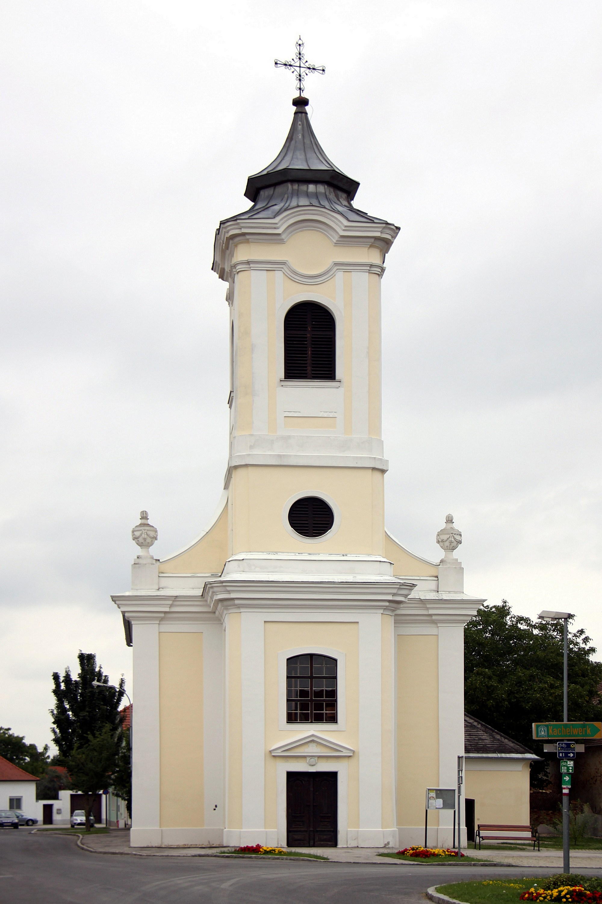 Parish church holy Leonhard - Walbersdorf (municipality Mattersburg). Object location47° 44′ 26.74″ N, 16° 25′ 12″ E